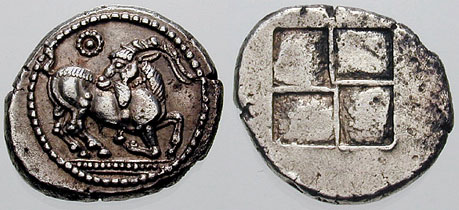 MACEDONIA, Aigai. Circa pre 500 BCE. Tetradrachm (Kneeling goat right, head reverted; annulet above / Quadripartite incuse square. This punning type with a goat (aigoV) clearly alludes to the old Macedonian royal capital Aigai, founded by Perdikkas I